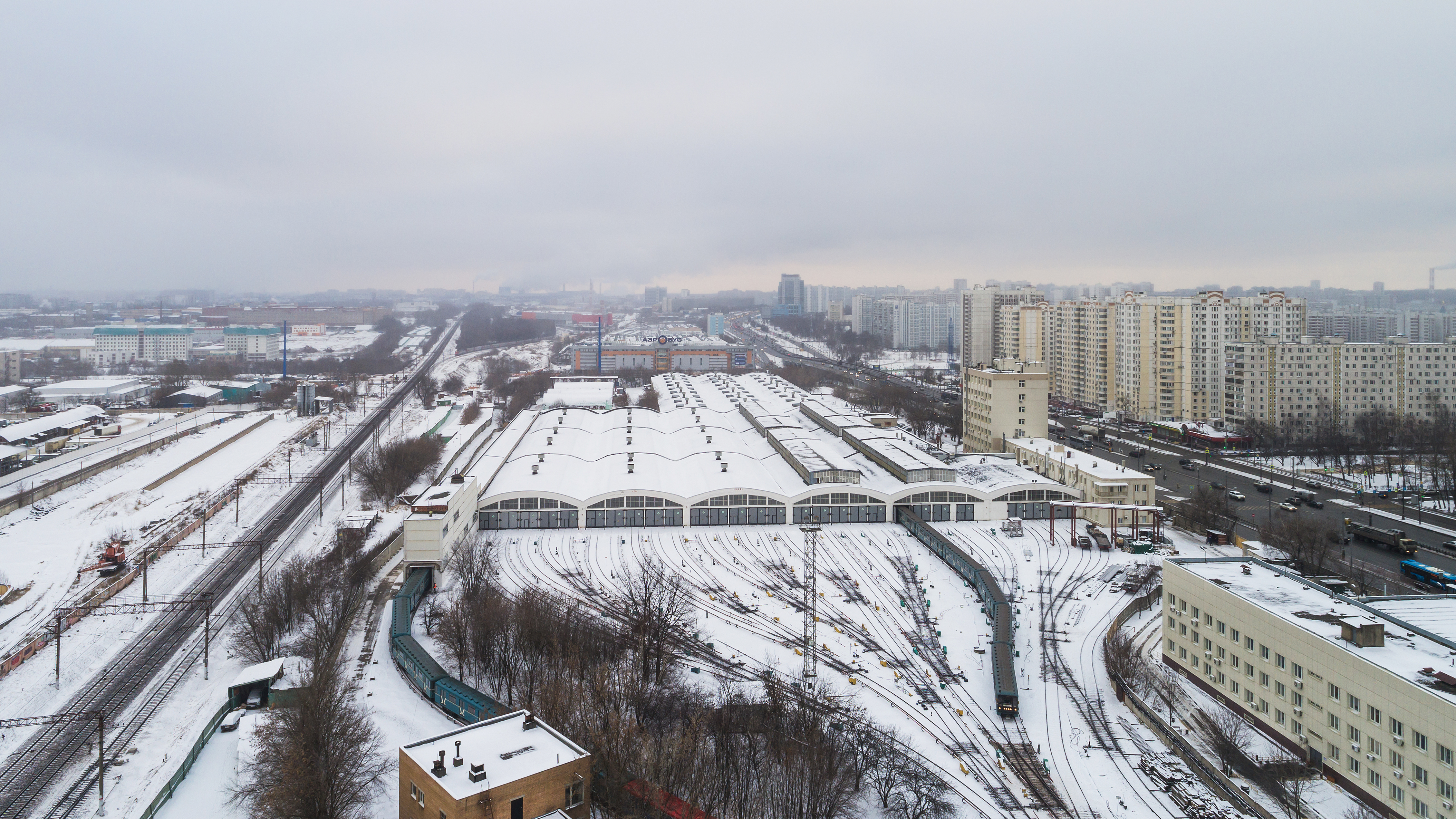 Aerial photo of Zamoskvoretskoye Metro Depot in Moscow